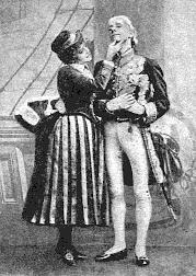 1887 revival: Jessie Bond as Cousin Hebe and George Grossmith as Sir Joseph Porter in H.M.S. Pinafore.